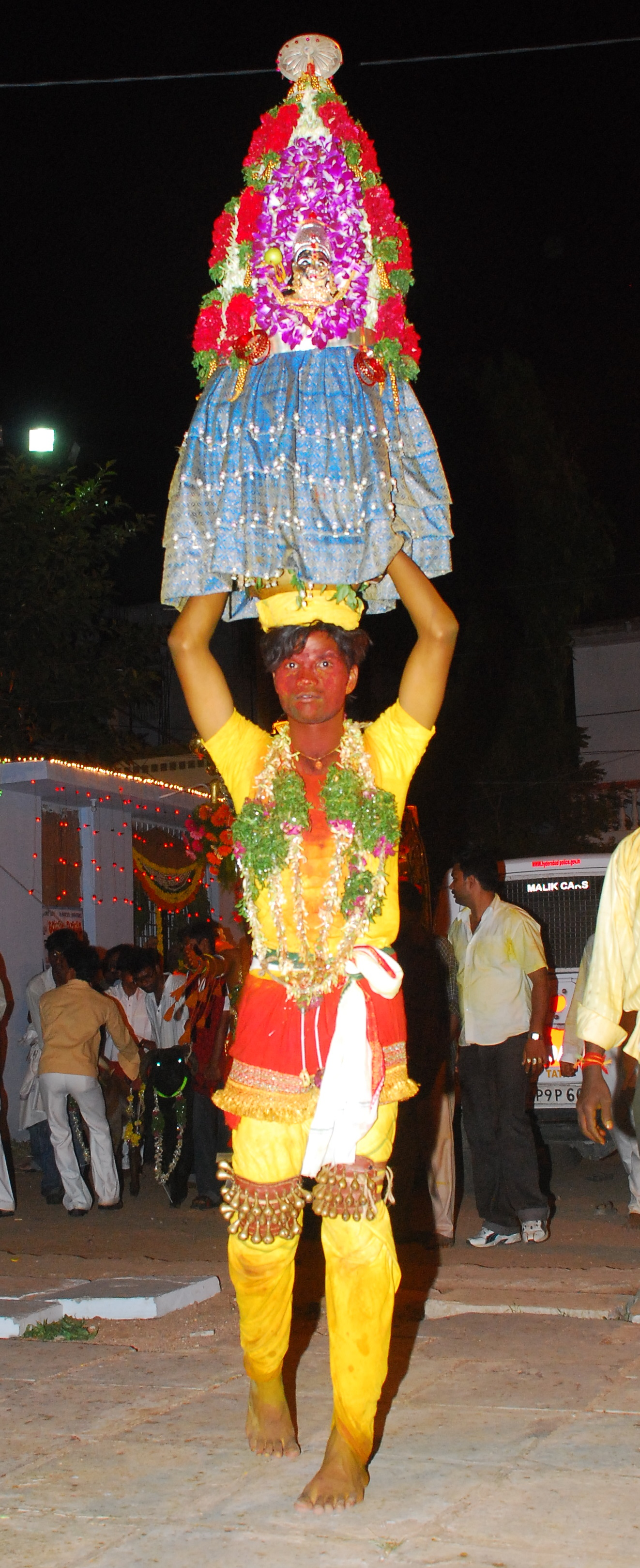 Ghatam at the celebration of Bonalu